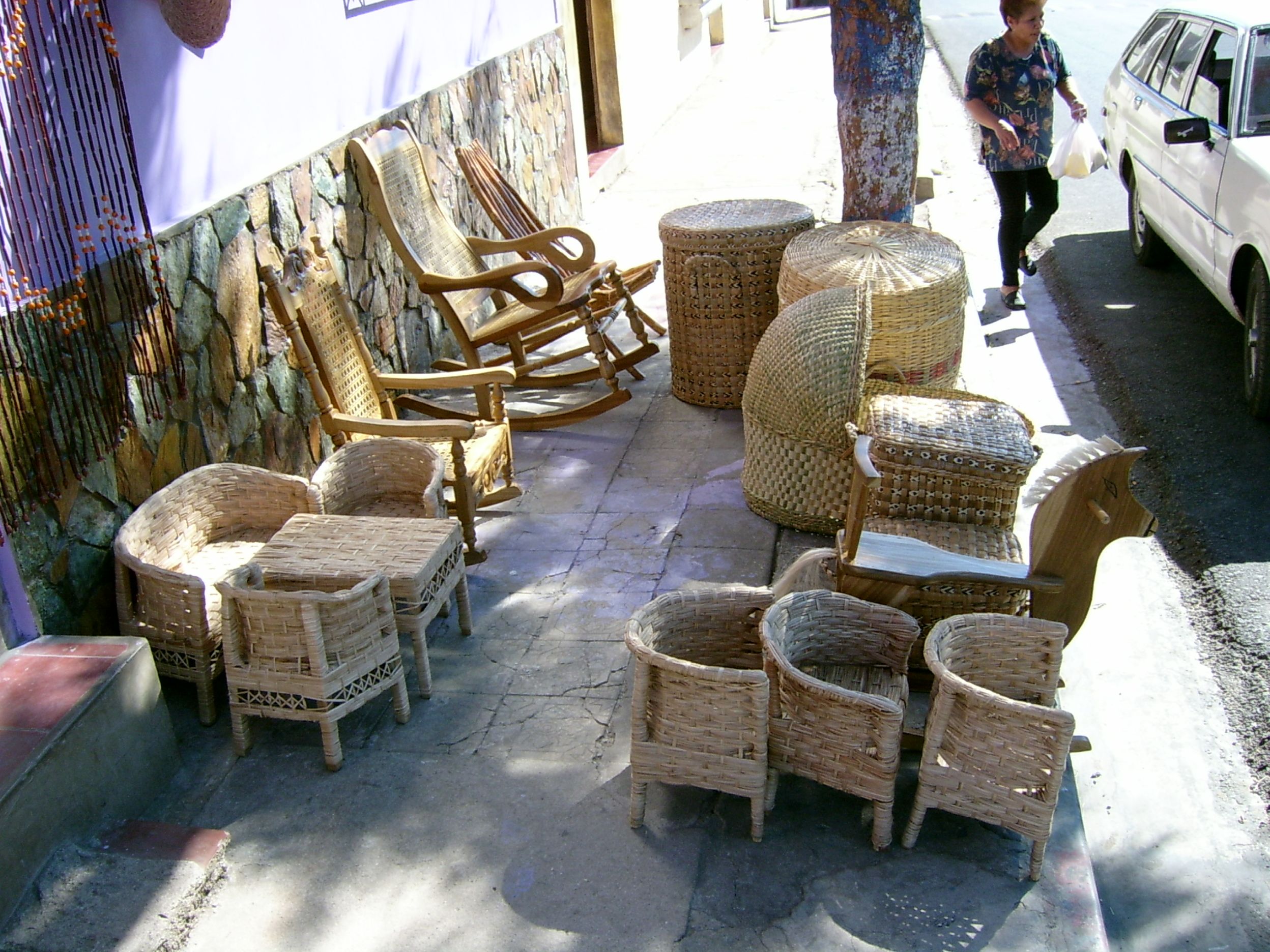 Wicker furniture on sale in the street of Nahuizalco, El Salvador on January 15, 2005. Many residents of this city manufacture products from wicker and tule in their small workshops. This picture is my own work (--Sapfan 18:47, 17 July 2006 (UTC)) and was previously published on .